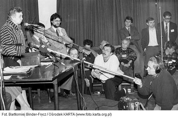 Tydzień Sumienia w Polsce